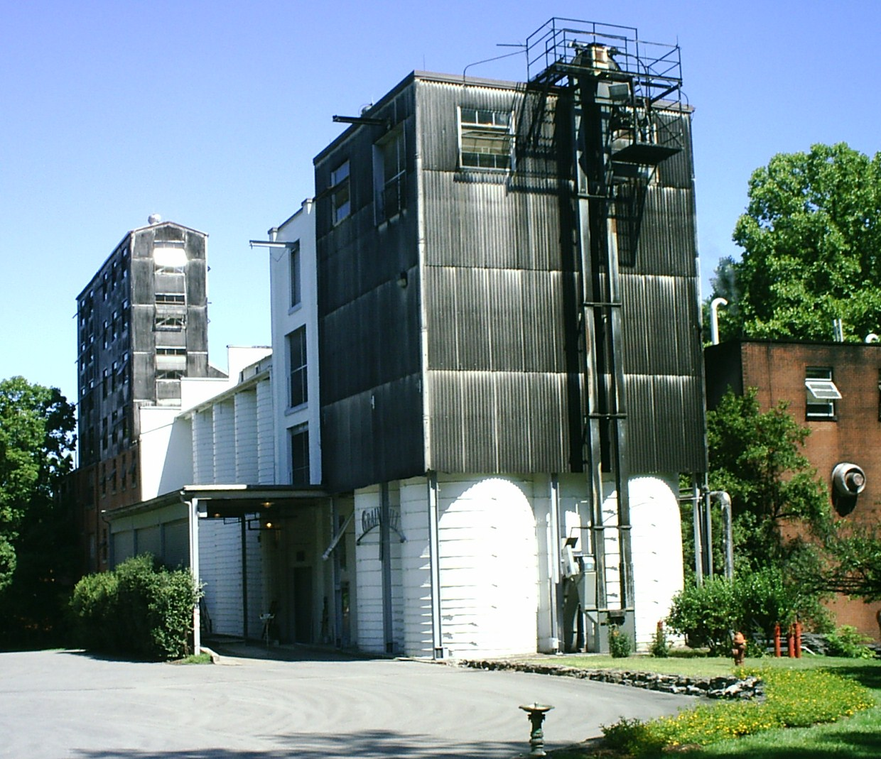 Jack Daniel's main distillery